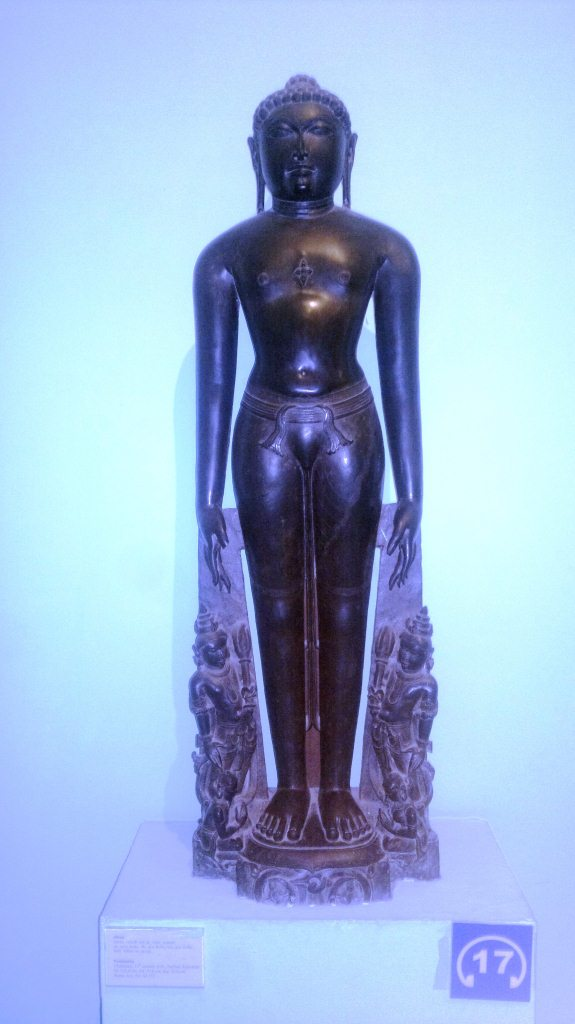 Jain Teerthankar Neminaath